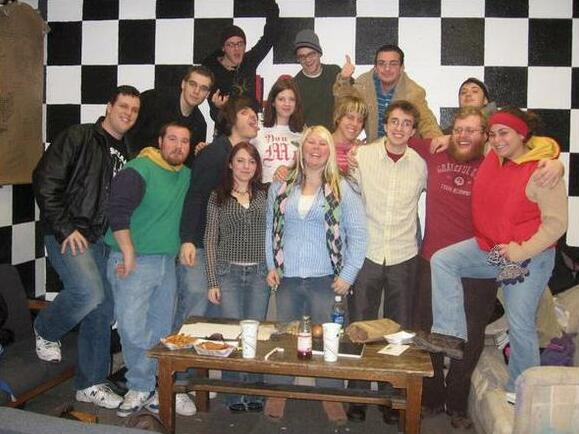 DJs of WBNY circa 2005-2006